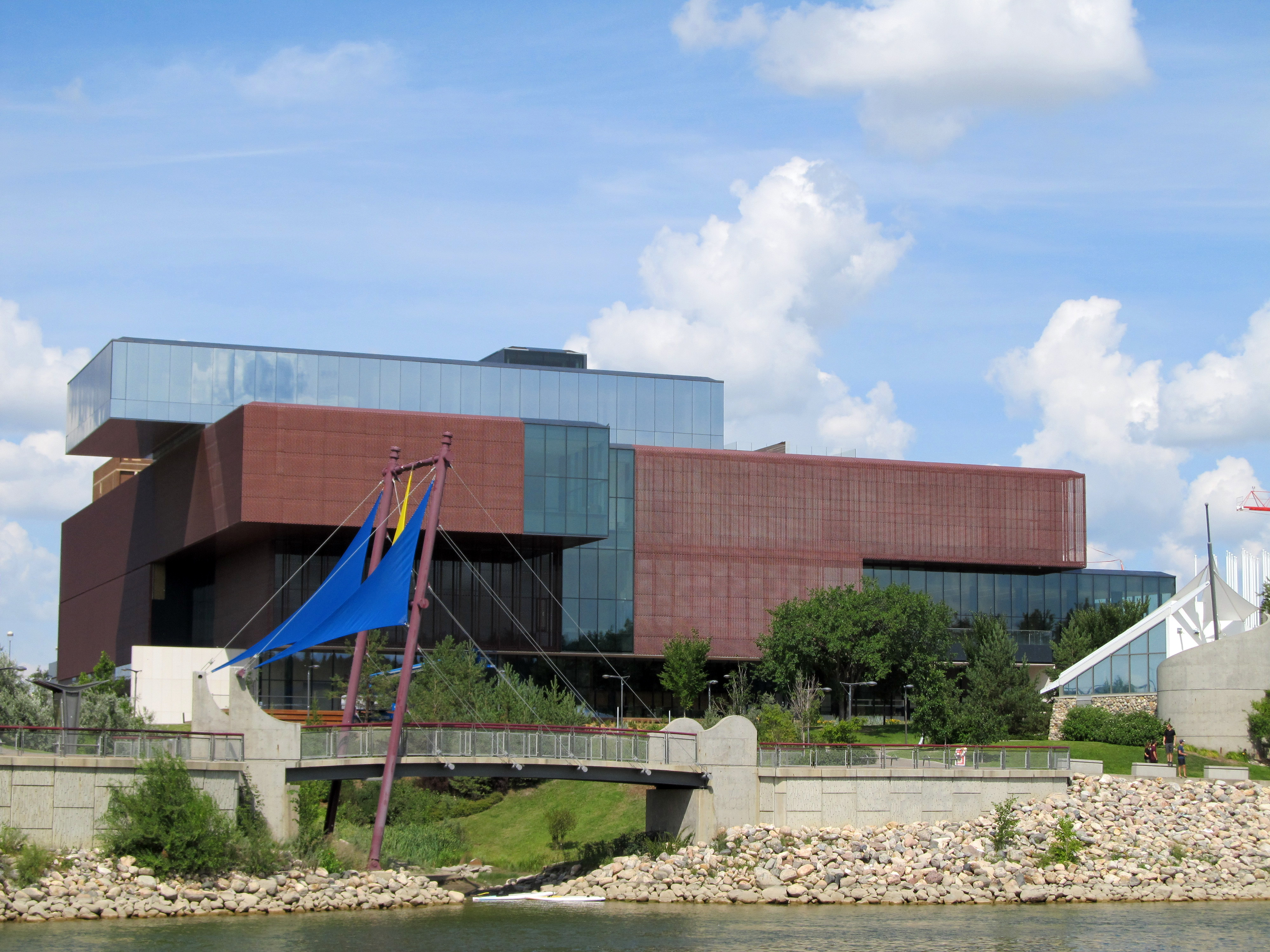 The Remai Modern Art Gallery of Saskatchewan in August 2017, two months before its grand opening.